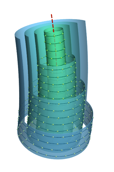 Schematic illustration of particle trajectories in an idealized irrotational stationary vortex (where the linear velocity is constant and the angular velocity is inversely proportional to distance from the axis). The dashed line represents the axis of the vortex. The small spheres are sample particles, and the thin circles are their streamlines (or pathlines). Each niti transparent tube represents a surface of equal angular momentum; the distance r from the axis to each surface is 1, 2, 3 and 4 times some arbitrary unit. Note that this schematic animation is not entirely accurate. In a real vortex with curved axis, as shown here, the streamlines are not perfect concentric circles. Moreover, the pattern must break down in a core region close to the axis. This is one frame of an animation created on 2012-09-24 by J. Stolfi using POV-Ray. The code is available at